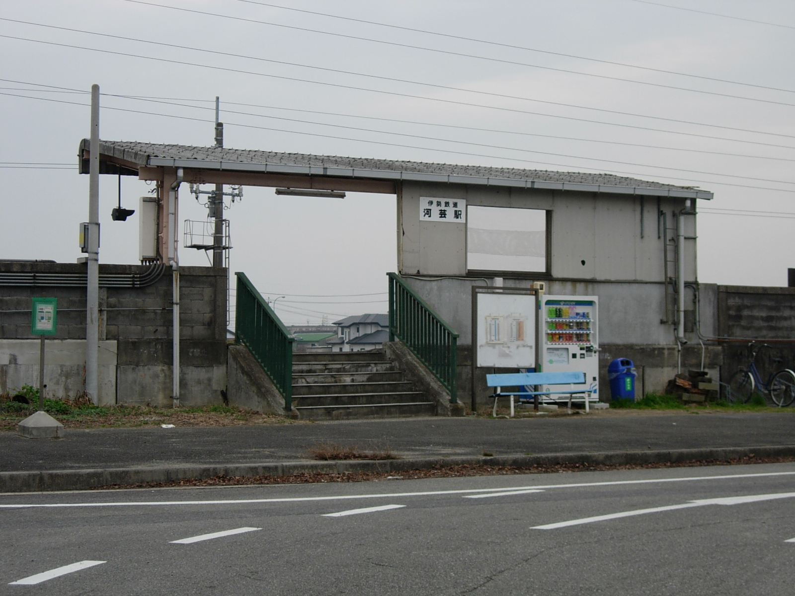 Kawage Station